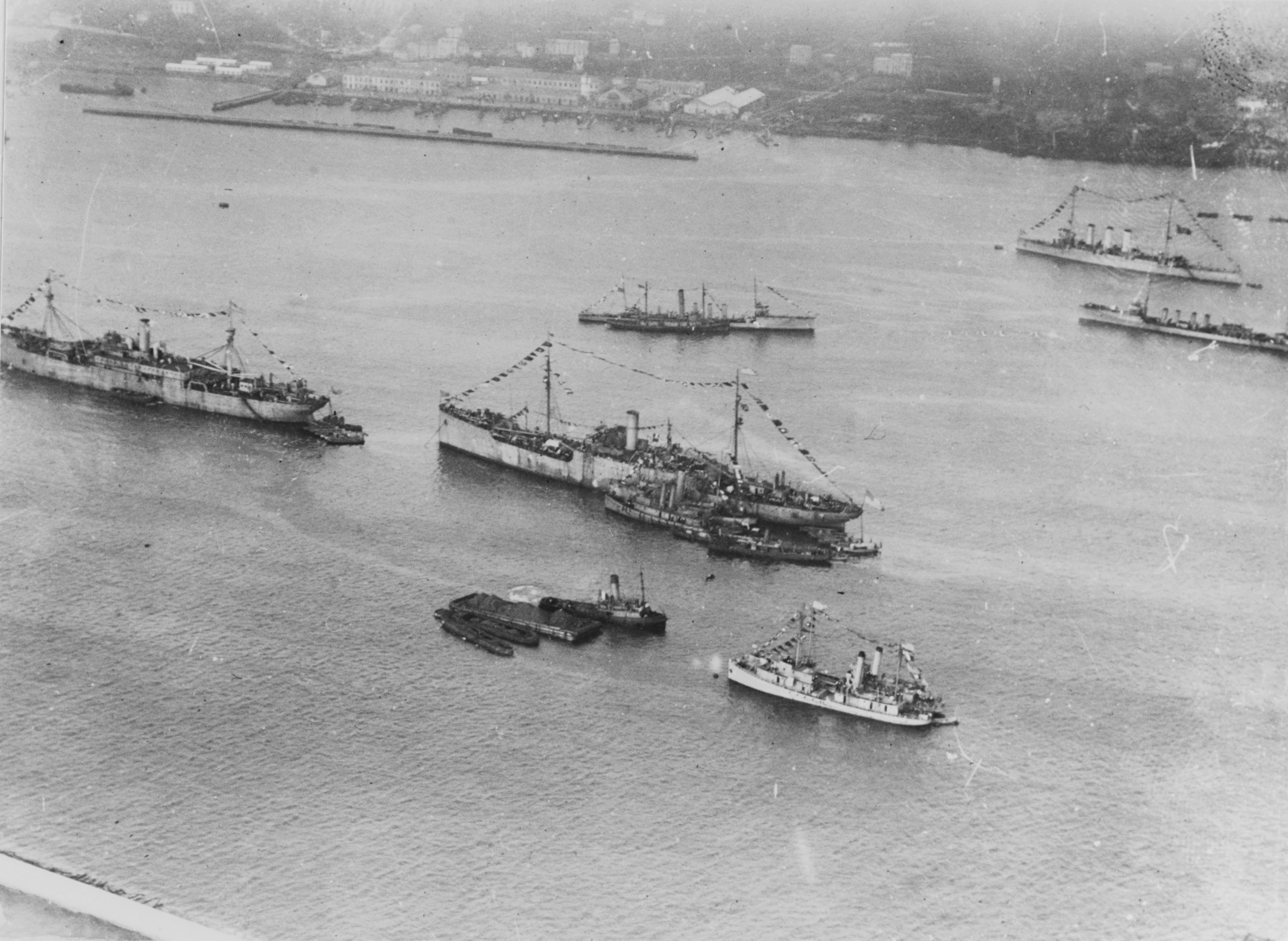 Ships dressed with flags in the harbour of Brest, France, awaiting the arrival of U.S. President Woodrow Wilson, in December 1918 or March 1919. The destroyer tender USS Bridgeport (ID # 3009) is at left. USS Prometheus (Repair Ship # 3) is in the center, with tugs alongside. Two U.S. Navy destroyers, another tug, and the Italian cruiser Libia are in the center and right distance. In the right-center foreground are two "Menhaden Fisherman" minesweepers, one wearing the numeral "5". Tugs may include USS Osceola and two units of the Allegheny-class.